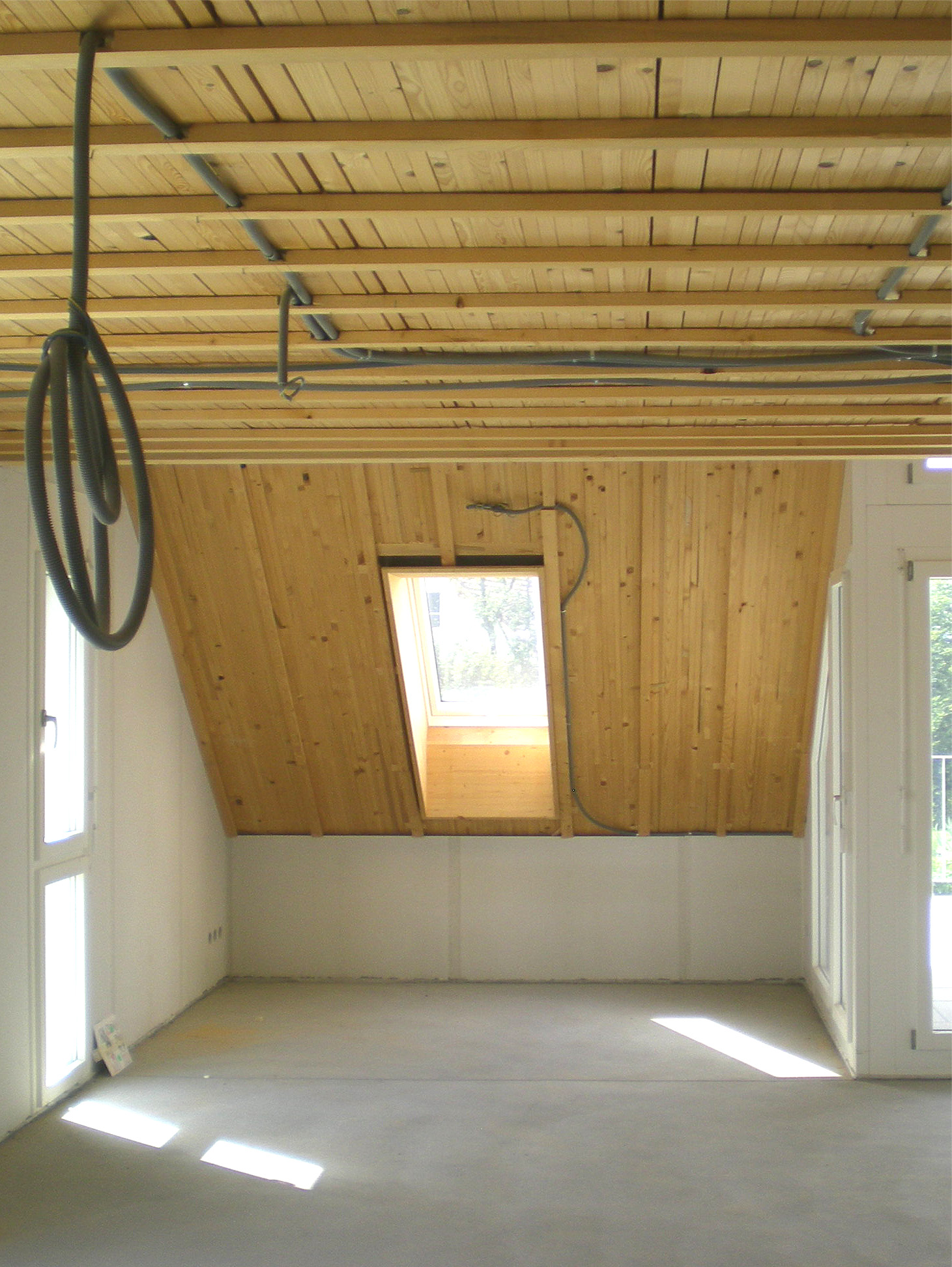 A house built using Industrial Grade Brettstapel in the process of being covered with plasterboard